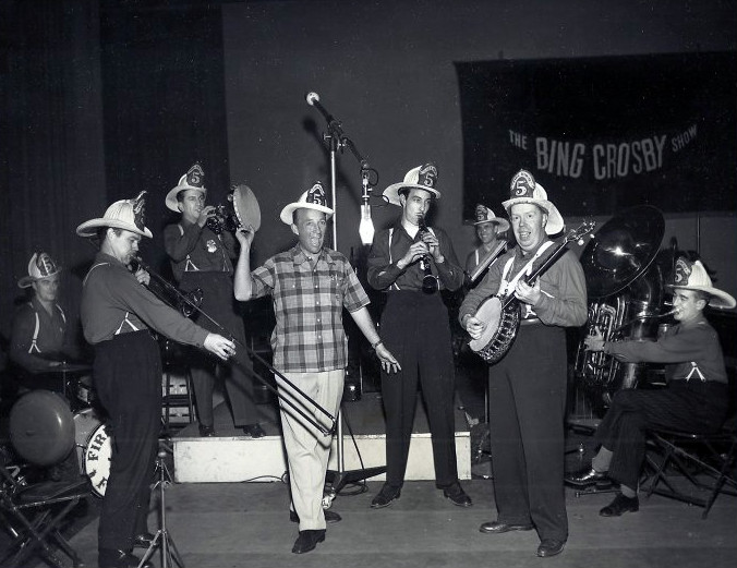 Photo of Bing Crosby and the Firehouse Five Plus Two musical group as they appeared on Crosby's CBS Radio program in 1950.